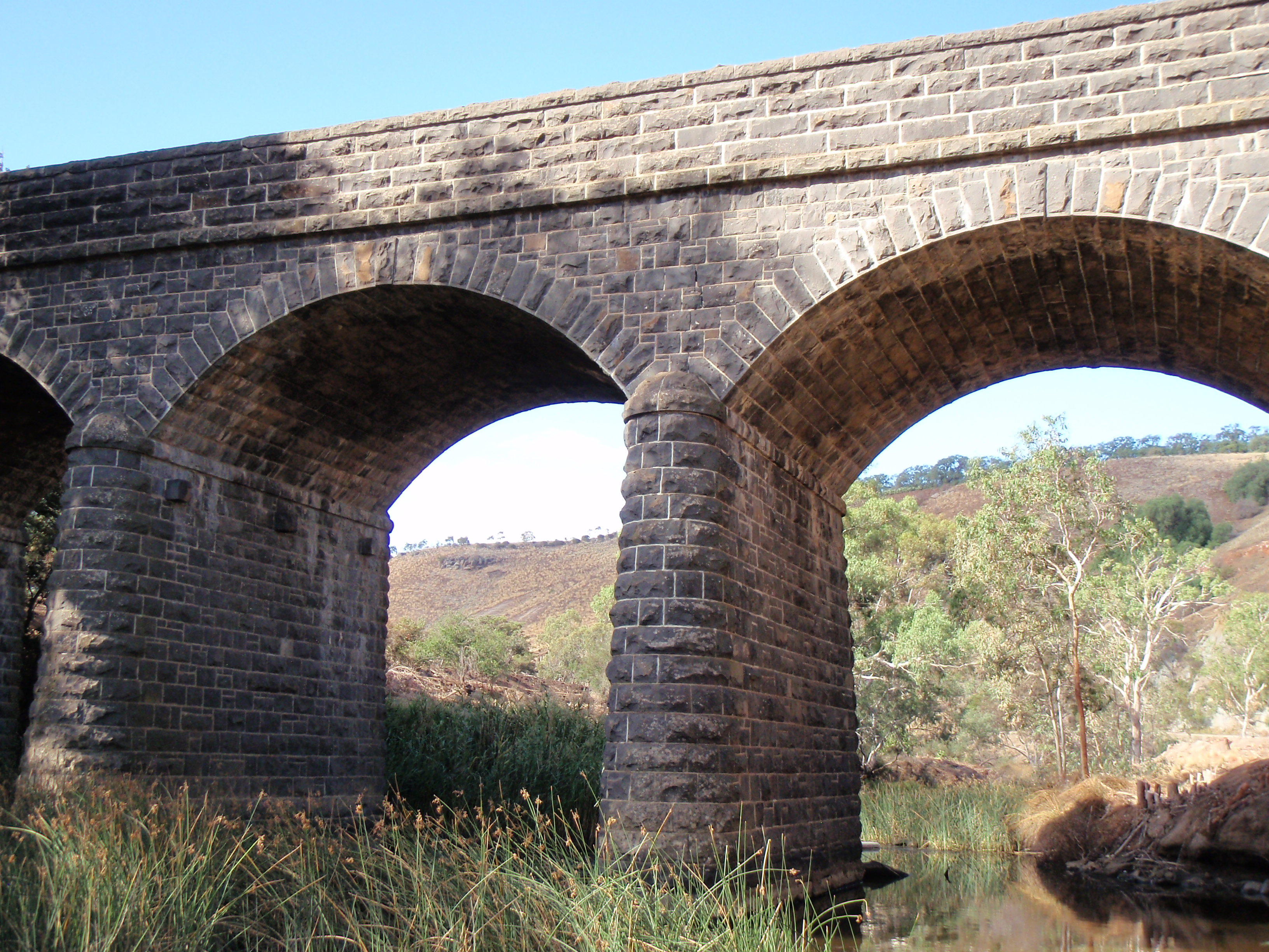 The historic Bulla Bridge, built 1869, still in use as the only vehicle crossing of Deep Creek (Victoria) at Bulla, Victoria